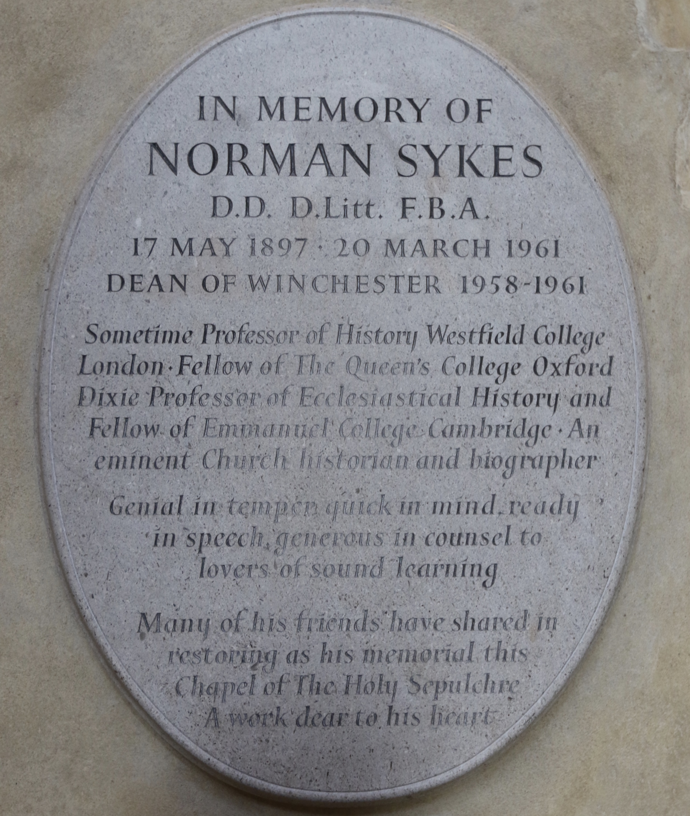 Norman Sykes D.D. D.Litt. F.B.A. 17 May 1897 - 20 March 1961 Dean of Winchester 1958-1961